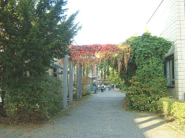 Ernst-Reuter Schule in Frankfurt Main, Artikel siehe